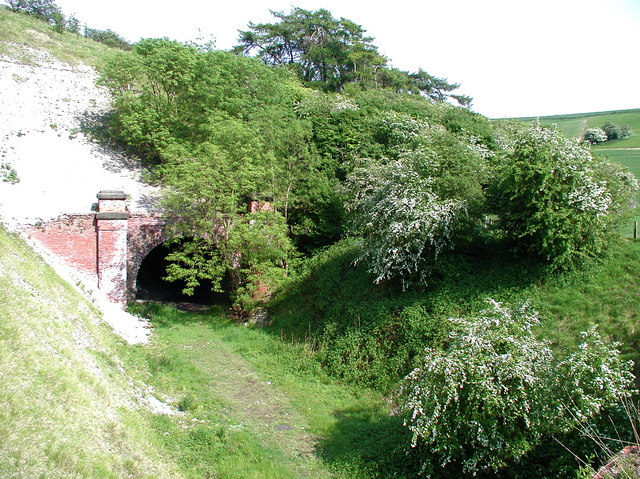 Weedley Tunnel, Low Hunsley, East Riding of Yorkshire, England.The western entrance to the short tunnel on the dismantled Hull & Barnsley Railway at Low Hunsley in the Yorkshire Wolds. Officially 'Weedley Tunnel' it has become known as 'Sugar Loaf Tunnel', a name presumably given to it by walkers on the nearby Yorkshire Wolds Way (there are other Sugar Loaf Tunnels including those on the Heart of Wales and the Richmond Vale railway lines). The reason for this nickname is obvious: there's a constant supply of white chalk dust spilling down from the hillside above the tunnel entrance. The Hull & Barnsley Railway was built in the 1880s together with Alexandra Dock in Hull, to break the monopoly of the North Eastern Railway Company and provide an additional trading route inland from the busy Humber port. The railway didn't last long. Services west of South Howden station were withdrawn from 1st January 1932 and the regular service between Hull and South Howden ended on 30th July 1955, although some excursion traffic continued to use this picturesque route through The Wolds until about 1958. After that only a short section of the railway remained in Hull serving the local chemical works until the 1970s when another short stretch of the line just south of Selby was reopened for delivering coal to the newly built Drax Power Station. The steep-sided cutting through the sandstone and chalk between Weedley Tunnel and Drewton Tunnel later became a quarry, operated by Stoneledge Plant & Transport of Cottingham.